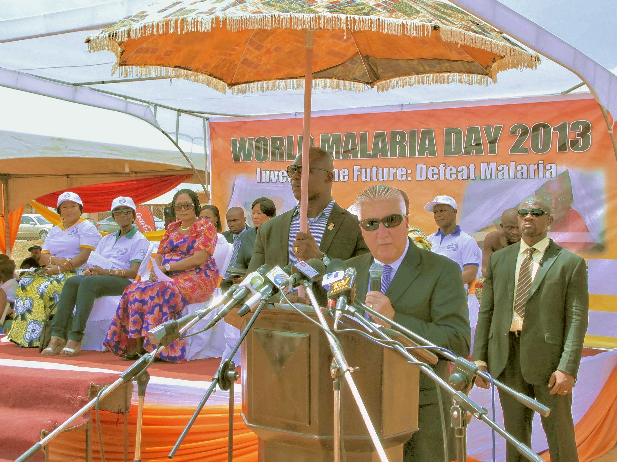 US-Ambassador to Ghana, Gene Cretz, speaks at the event to the World Malaria Day 2013 in Adenta (Greater Accra Region, Ghana). The lady in red-blue dress is the First Lady of Ghana, Lordina Mahama.